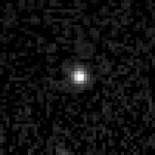 Centaur 10199 Chariklo, imaged by the Hubble Space Telescope's WFC3 imager on 17 June 2015. Source images have been in public domain since 2016-06-18. Proposal ID 13713 (Bruno Sicardy).